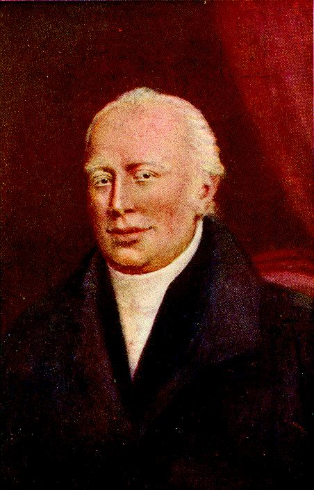 Adam Clarke